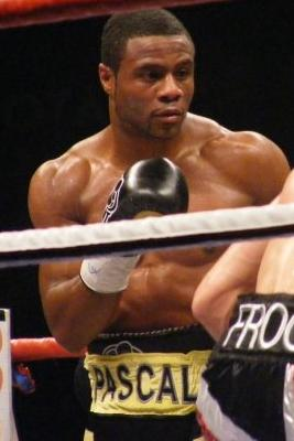 Canadian boxer Jean Pascal vs Carl Froc midround